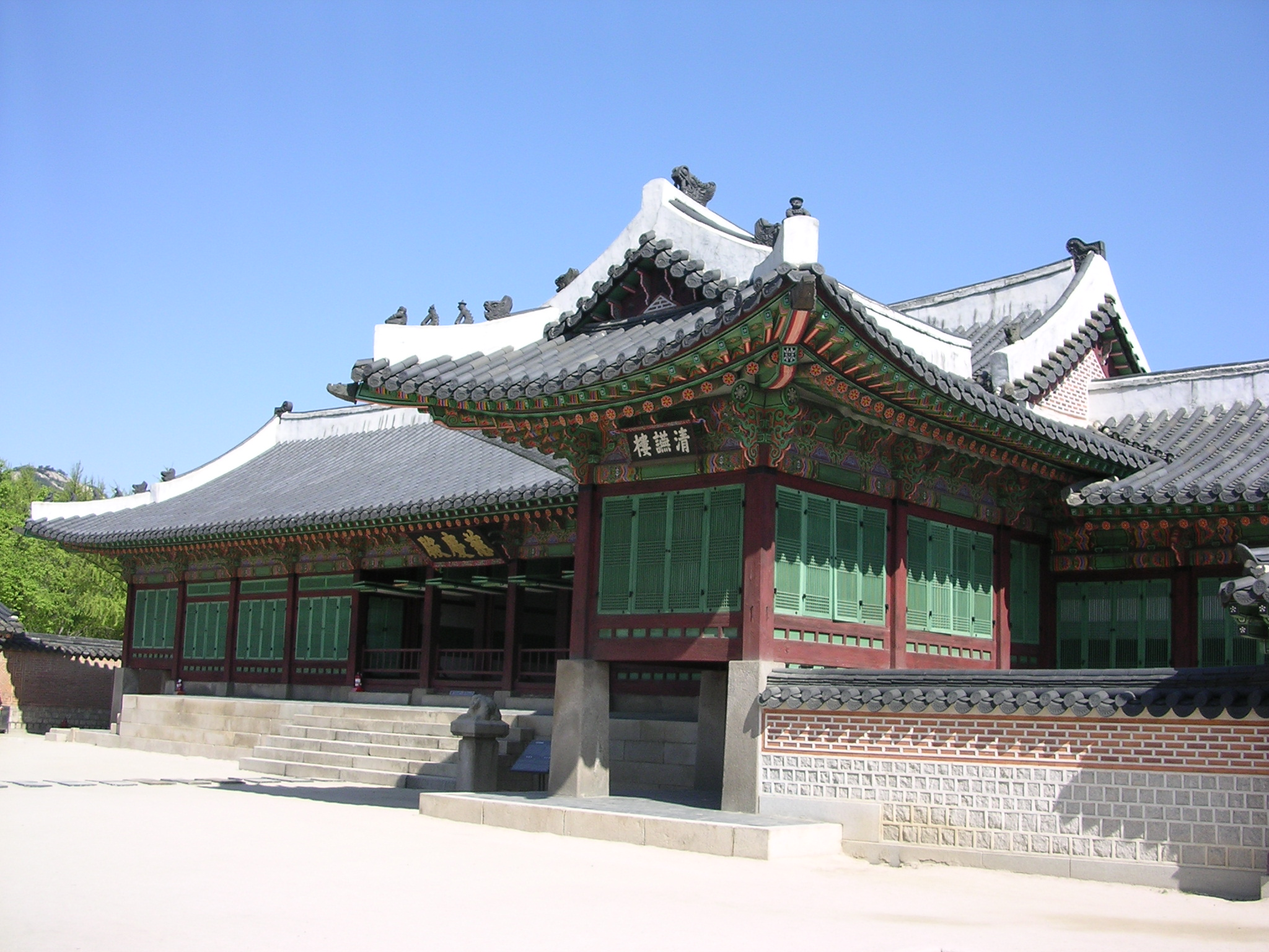 Jagyeongjeon in Gyeongbok Palace, Seoul, Korea